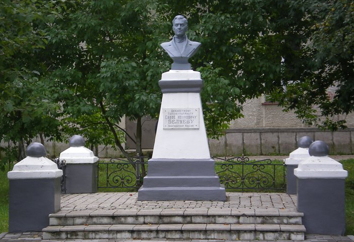 Russian patriot